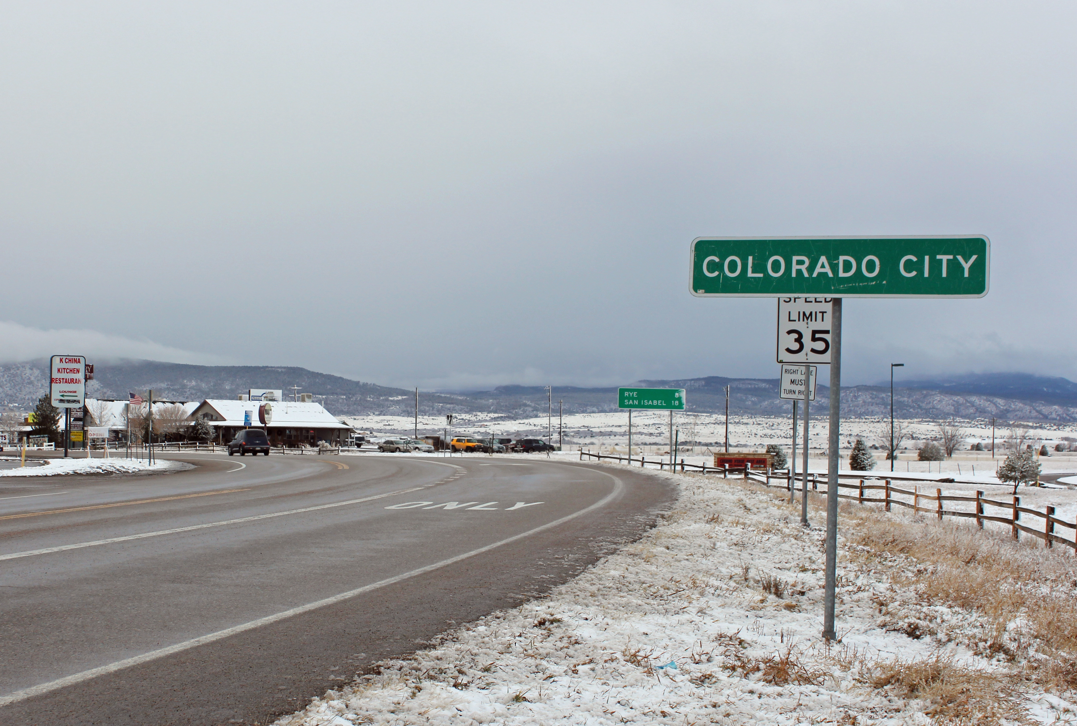 Colorado City, a census-designated place in Pueblo County, Colorado. The community lies in the Greenhorn Valley.